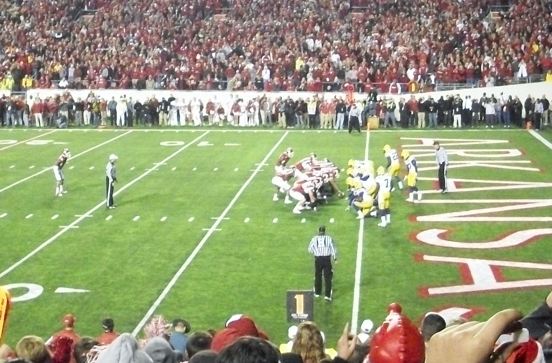 Arkansas Razorbacks quarterback Ryan Mallett prepares to kneel down against the #5 LSU Tigers in War Memorial Stadium.